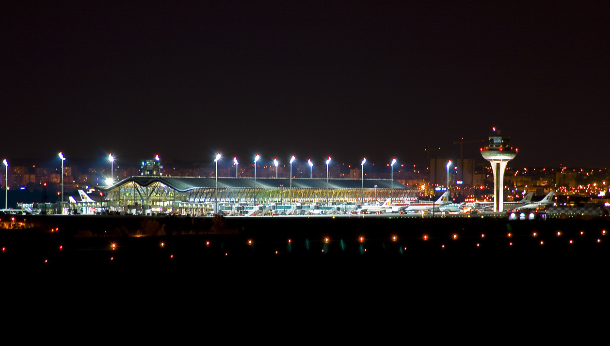 Night view of Madrid-Barajas airport (Spain).